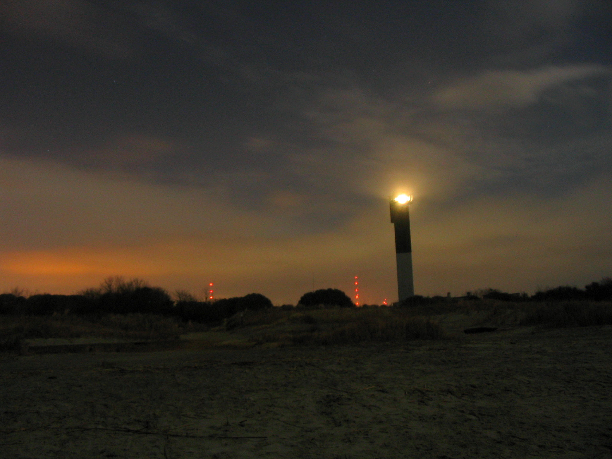 Sullivan's Island Lighthouse as viewed from the beach late in the evening.